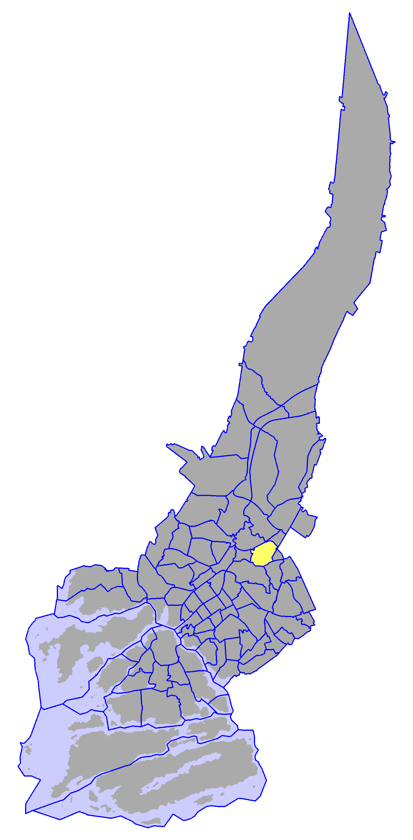 District of Halinen, in Turku